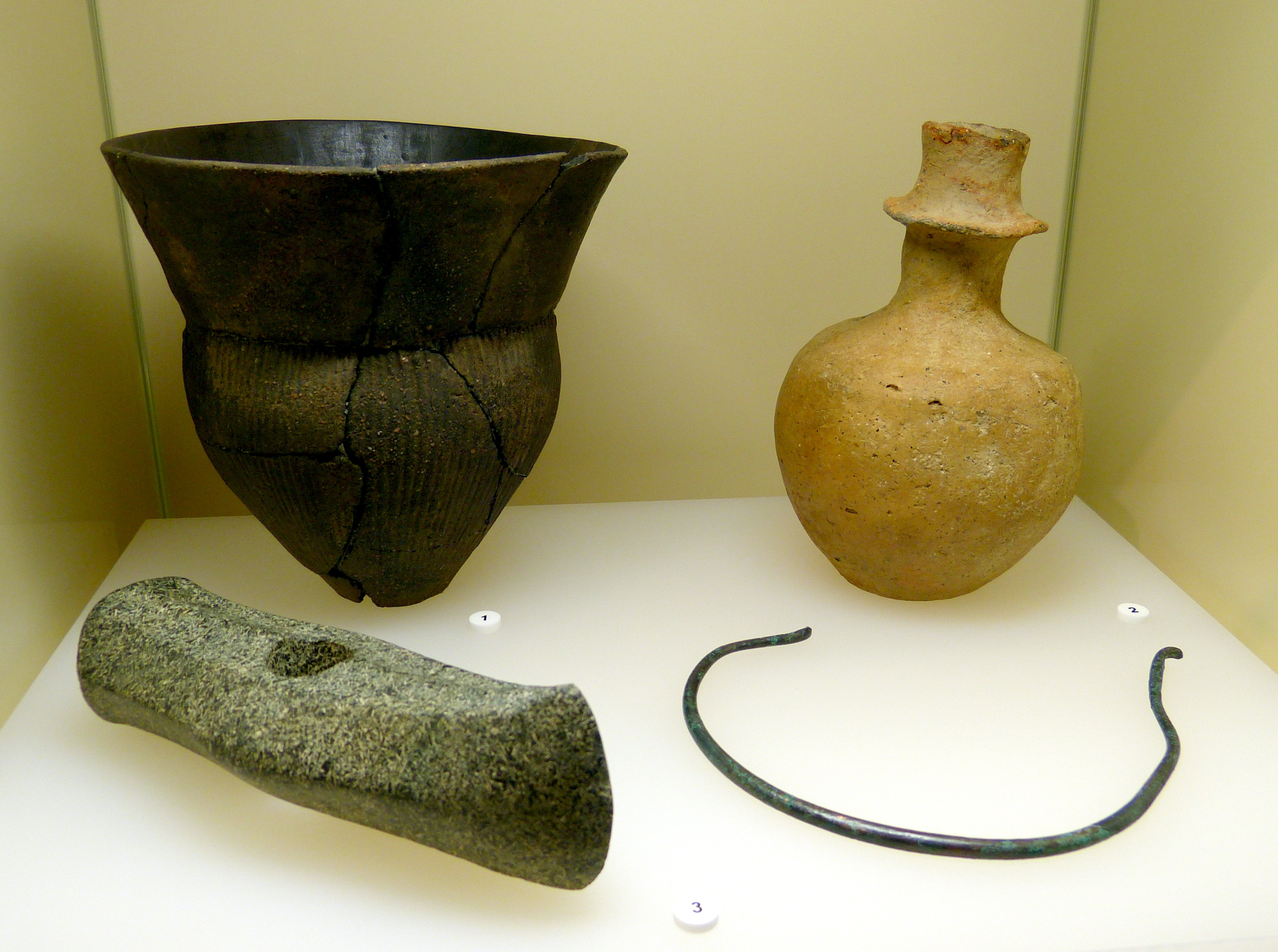 Brandenburg an der Havel ( Germany ) . Archaeological Museum of the state of Brandenburg - Stone Age Gallery:Funnelbeaker culture artefacts ( 4th millennium BC ).